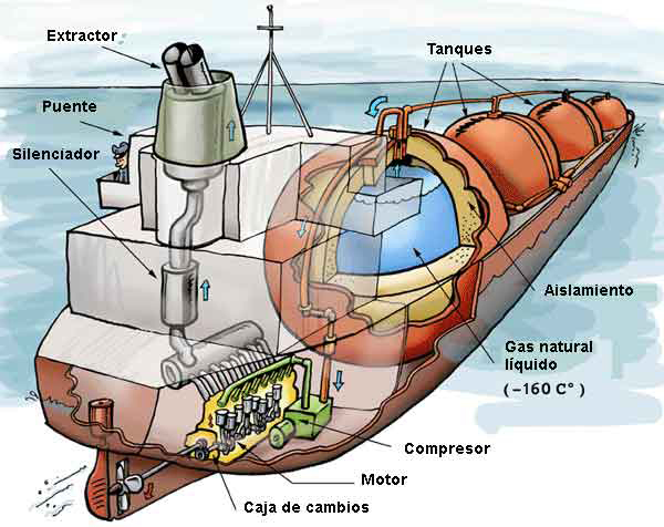 A cartoon of the insides of a LNG carrier